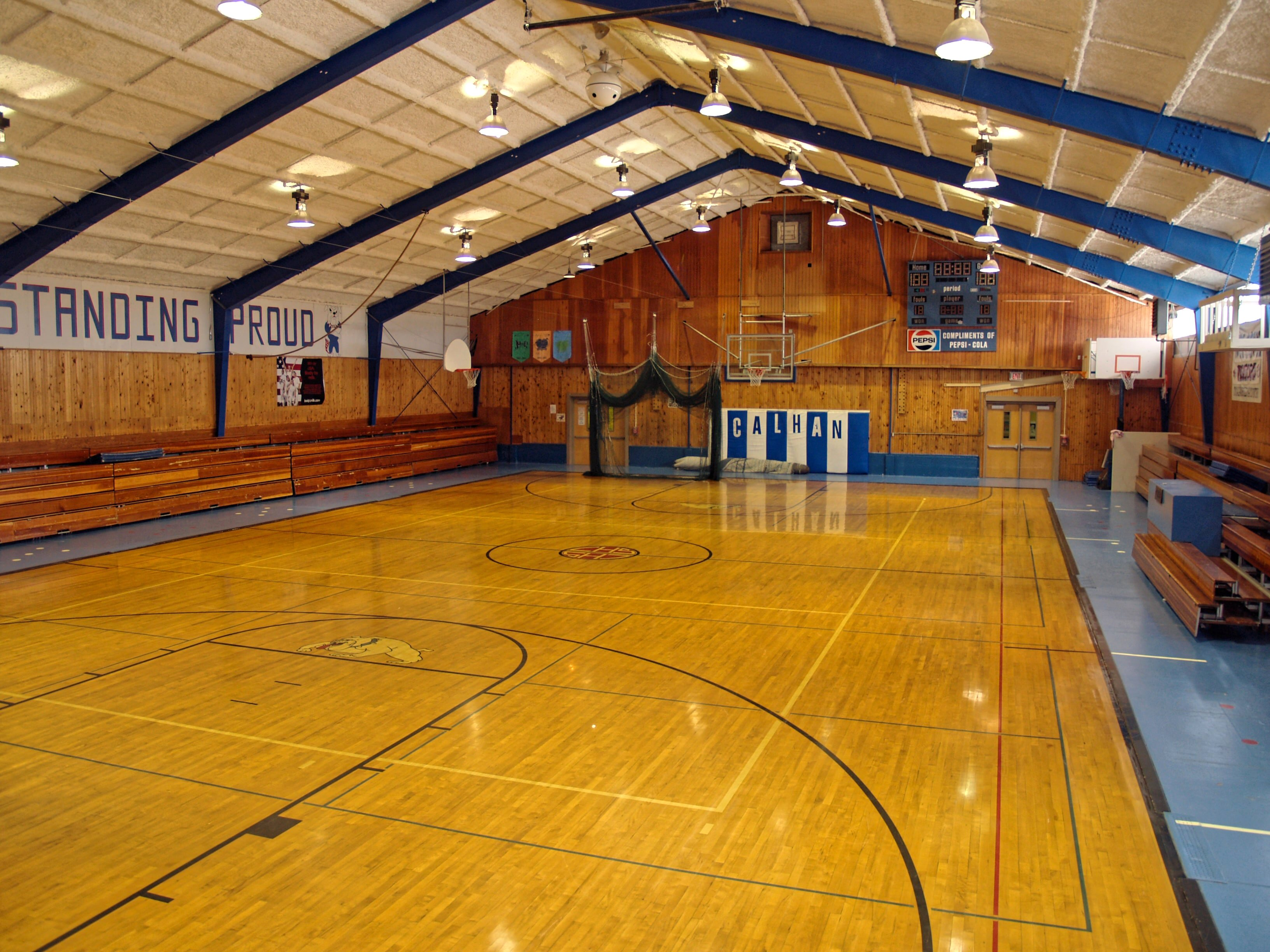 Calhan, Colorado high school gymnasium.